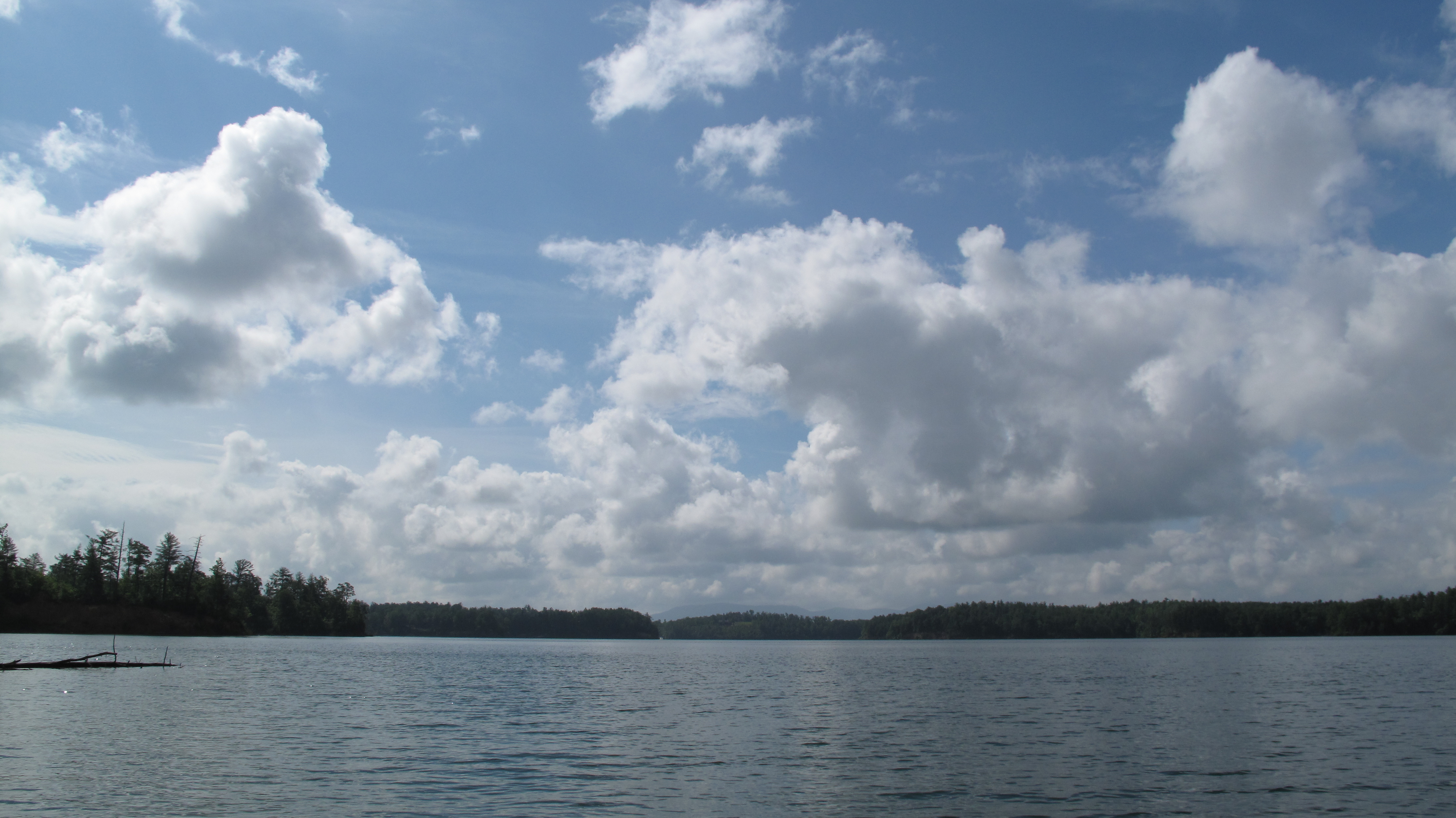 Credit: Lily Dancy-Jones/USFWS